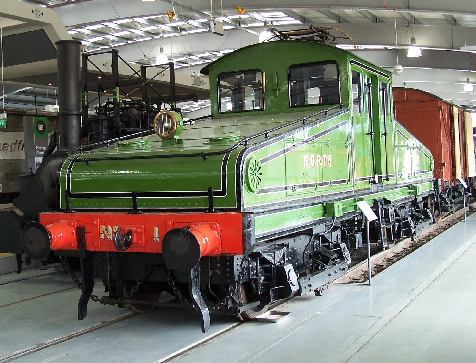 A North Eastern Railway electric steeplecab locomotive (Class ES1), commissioned in 1902, built in 1903, operational from 1905, built by the British Thomson-Houston company with sub-contractor Brush Electrical Engineering Co. One of a pair of locomotives to work on Tyneside, north-east England, hauling very heavy mineral trains to the docks up and down a very steep gradient. This example, NER No.1, is preserved by the National Railway Museum, and was photographed on 9 April 2008 at the Locomotion museum, Shildon.